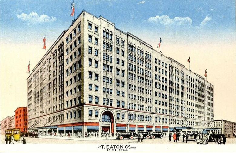 Postcard of the Eaton's department store, Montreal, Quebec, Canada.